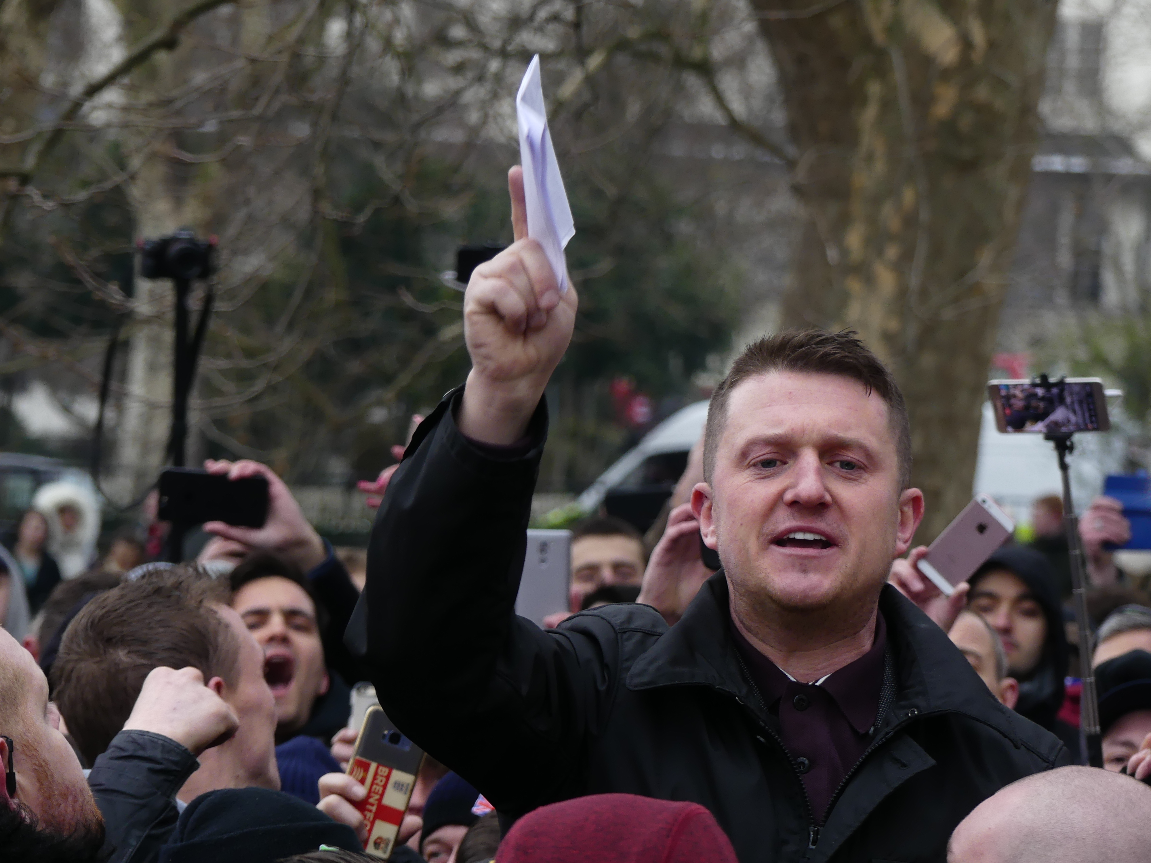 Tommy Robinson at Speakers' Corner. Picture taken by photojournalist Shayan Barjesteh van Waalwijk van Doorn.